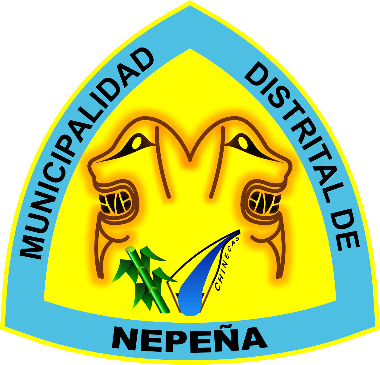 Nepeña district - Province Santa - Ancash Region